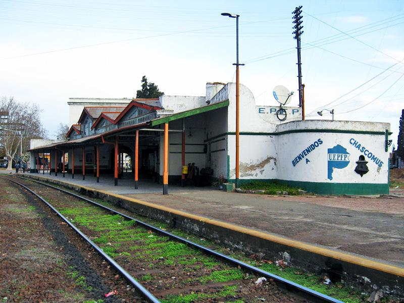 Chascomús Train Station